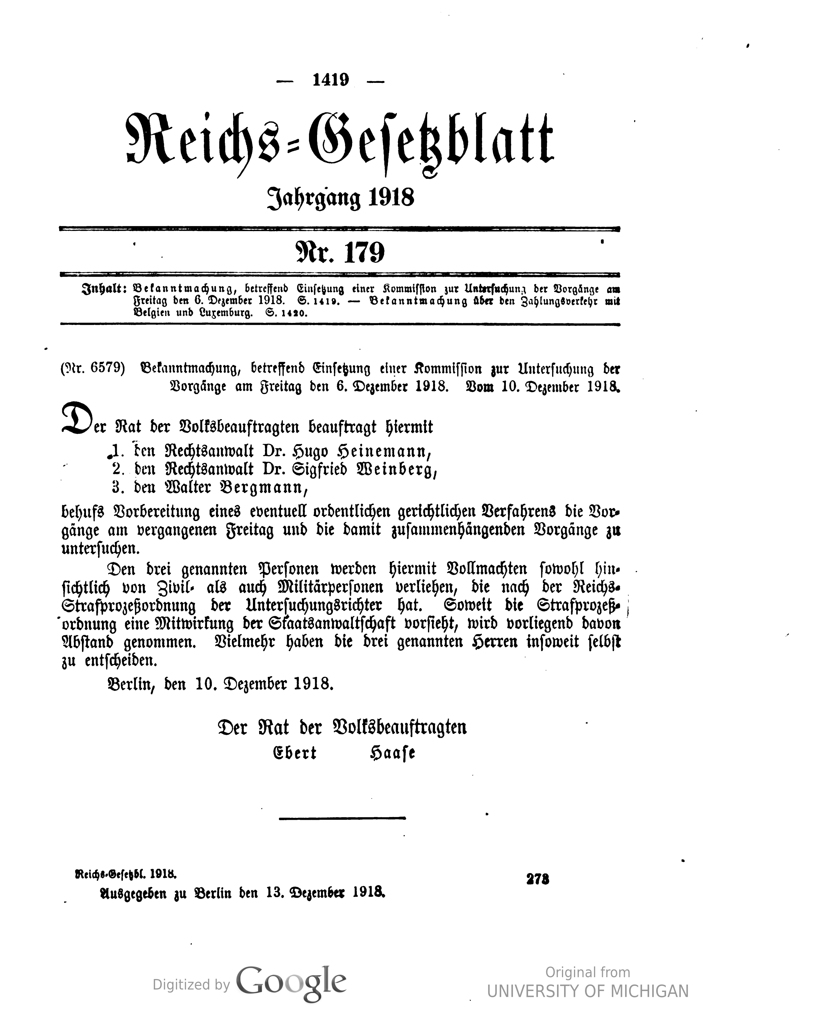 Scan from the Imperial Law Gazette of Germany, 1918